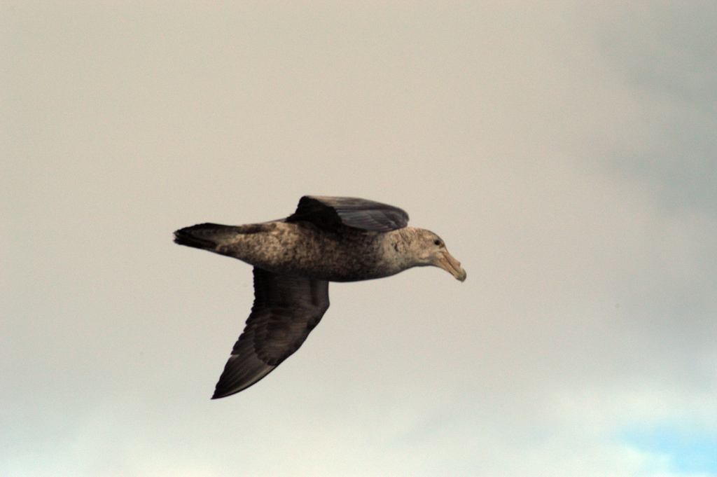 Macronectes giganteus Picture taken sailing through the Drake Passage